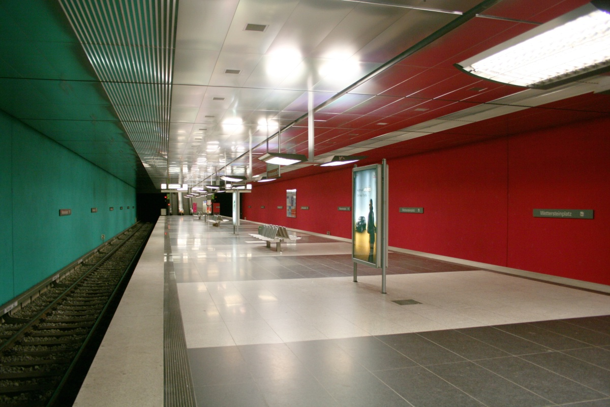 Munich subway station Wettersteinplatz